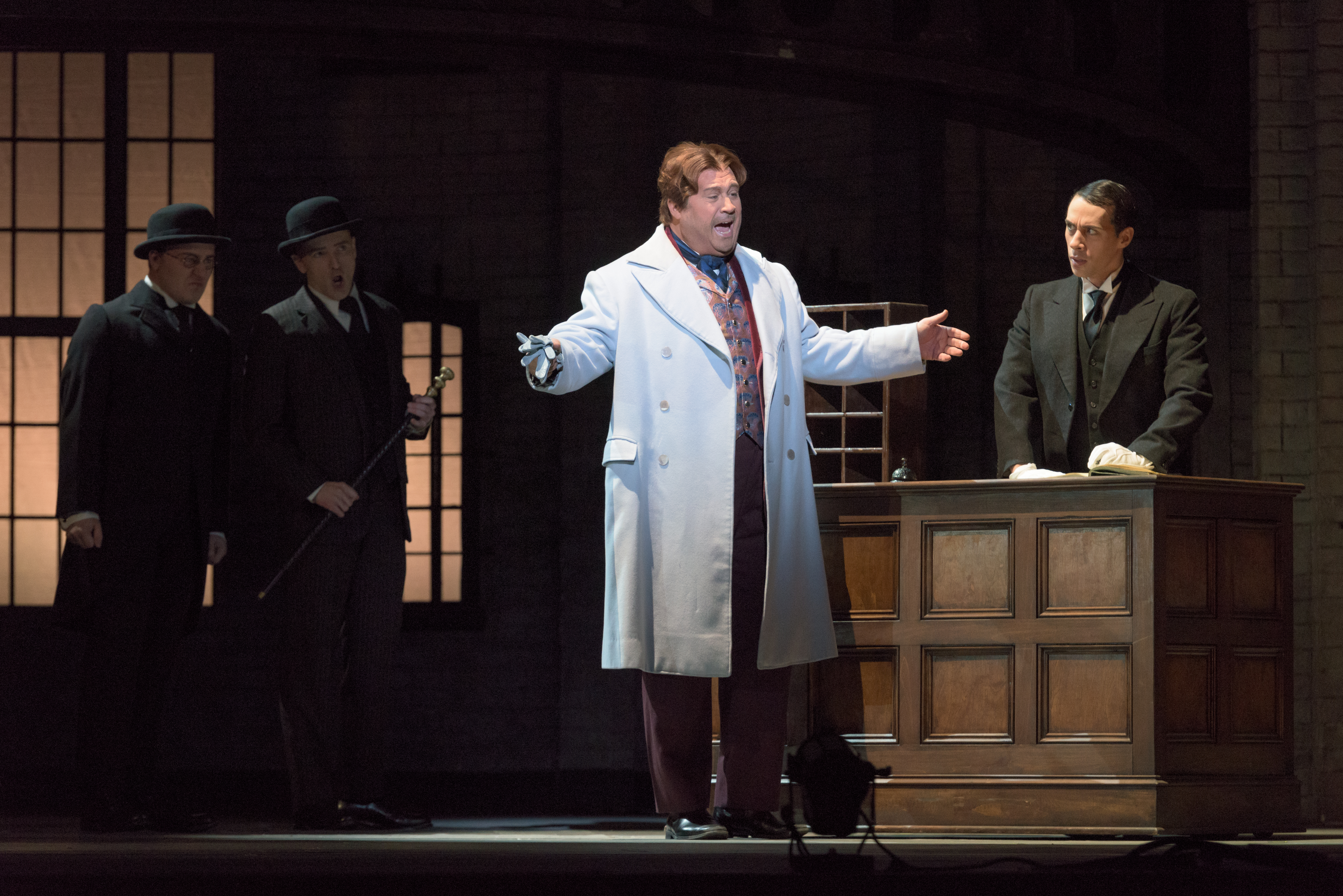 February 4, 2015 Academy of Music Philadelphia, PA Photo by Steven Pisano.